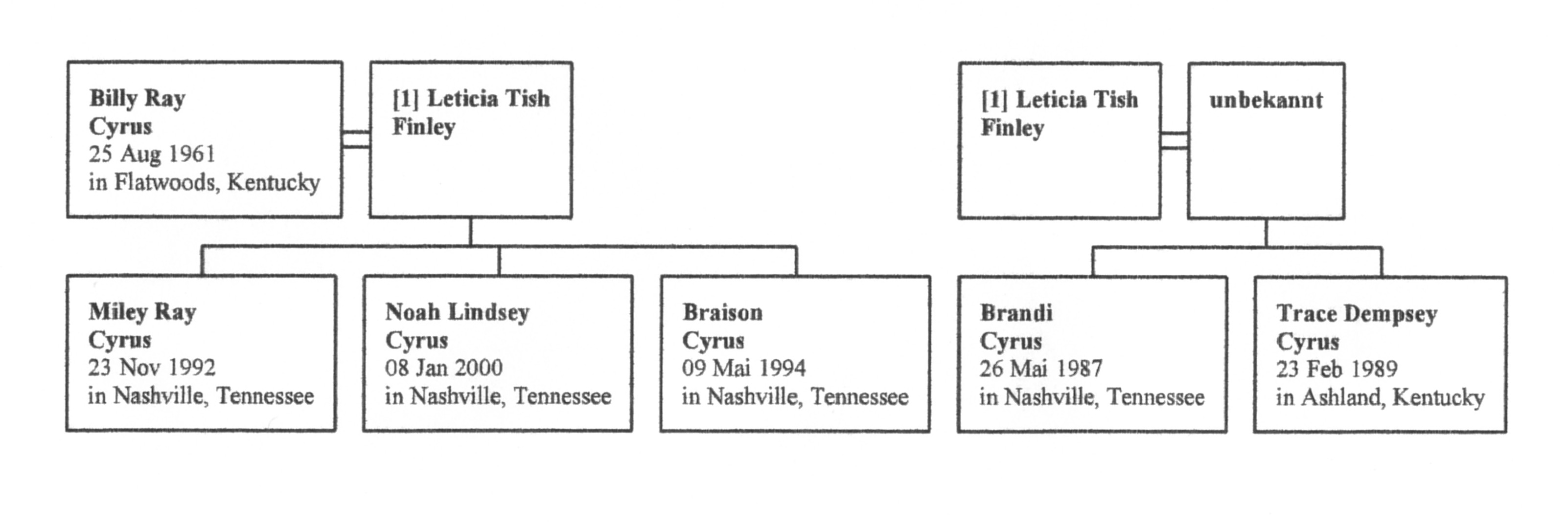 Family tree of Cyrus